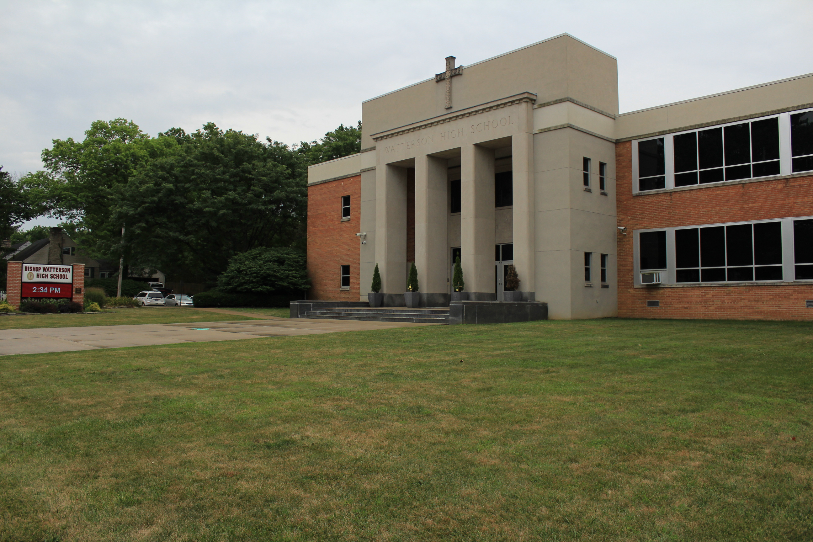 Front entrance of Bishop Watterson High School along Cooke Road in Columbus, Ohio.